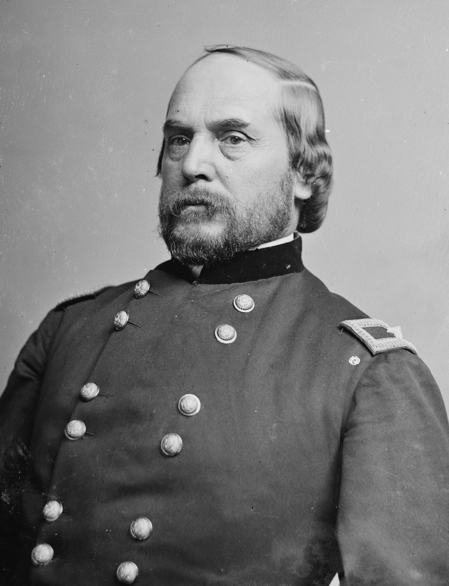 TITLE: Gen. Rufus Ingalls, U.S.A. CALL NUMBER: LC-BH82- 2203 [P&P] REPRODUCTION NUMBER: LC-DIG-cwpbh-00857 (b&w copy scan) No known restrictions on publication. MEDIUM: 1 negative : glass, wet collodion. CREATED/PUBLISHED: [between 1855 and 1865] NOTES: Title from unverified information on negative sleeve. Annotation from negative, scratched into emulsion: Ingalls. Forms part of Brady-Handy Photograph Collection (Library of Congress). FORMAT: Portrait photographs 1850-1870. Glass negatives 1850-1870. REPOSITORY: Library of Congress Prints and Photographs Division Washington, D.C. 20540 USA DIGITAL ID: (b&w scan) cwpbh 00857 This image was copied from en. Transwiki approved by: User:Dmcdevit. Category:United States history images